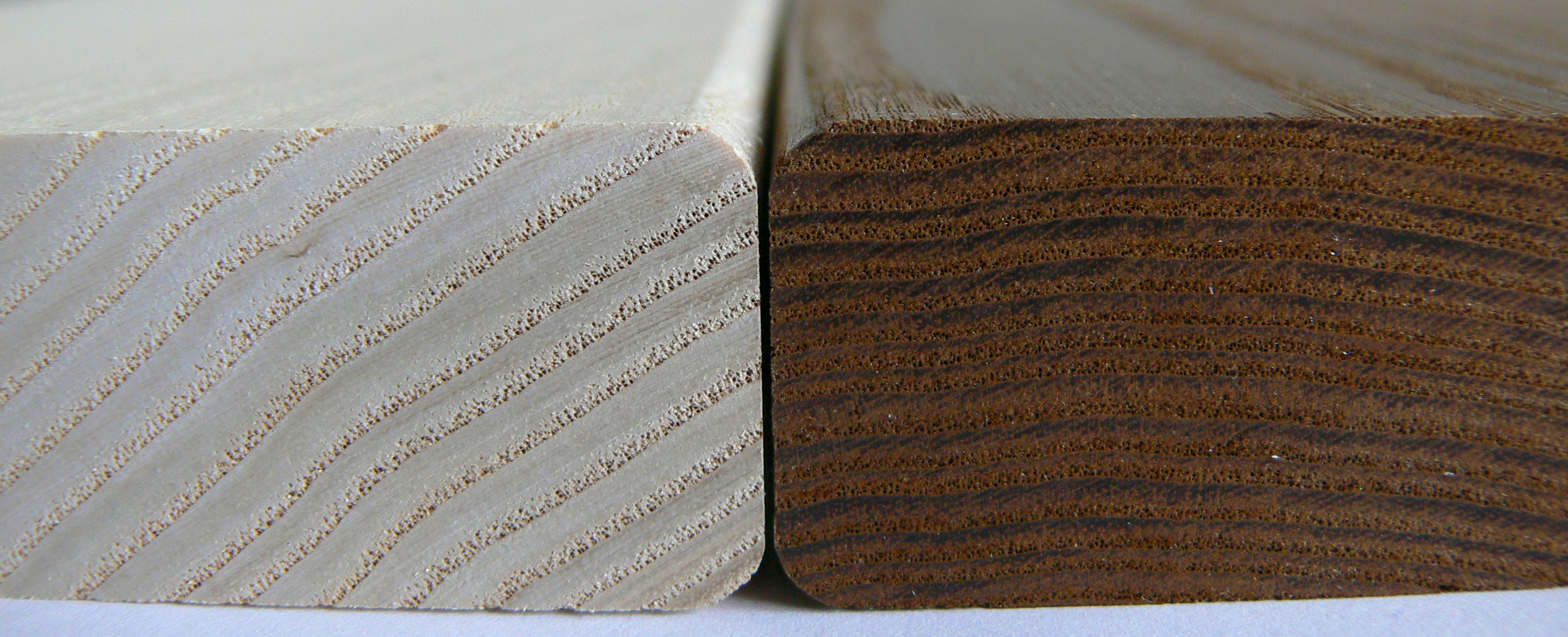 Thermowood Ash before treatment and after